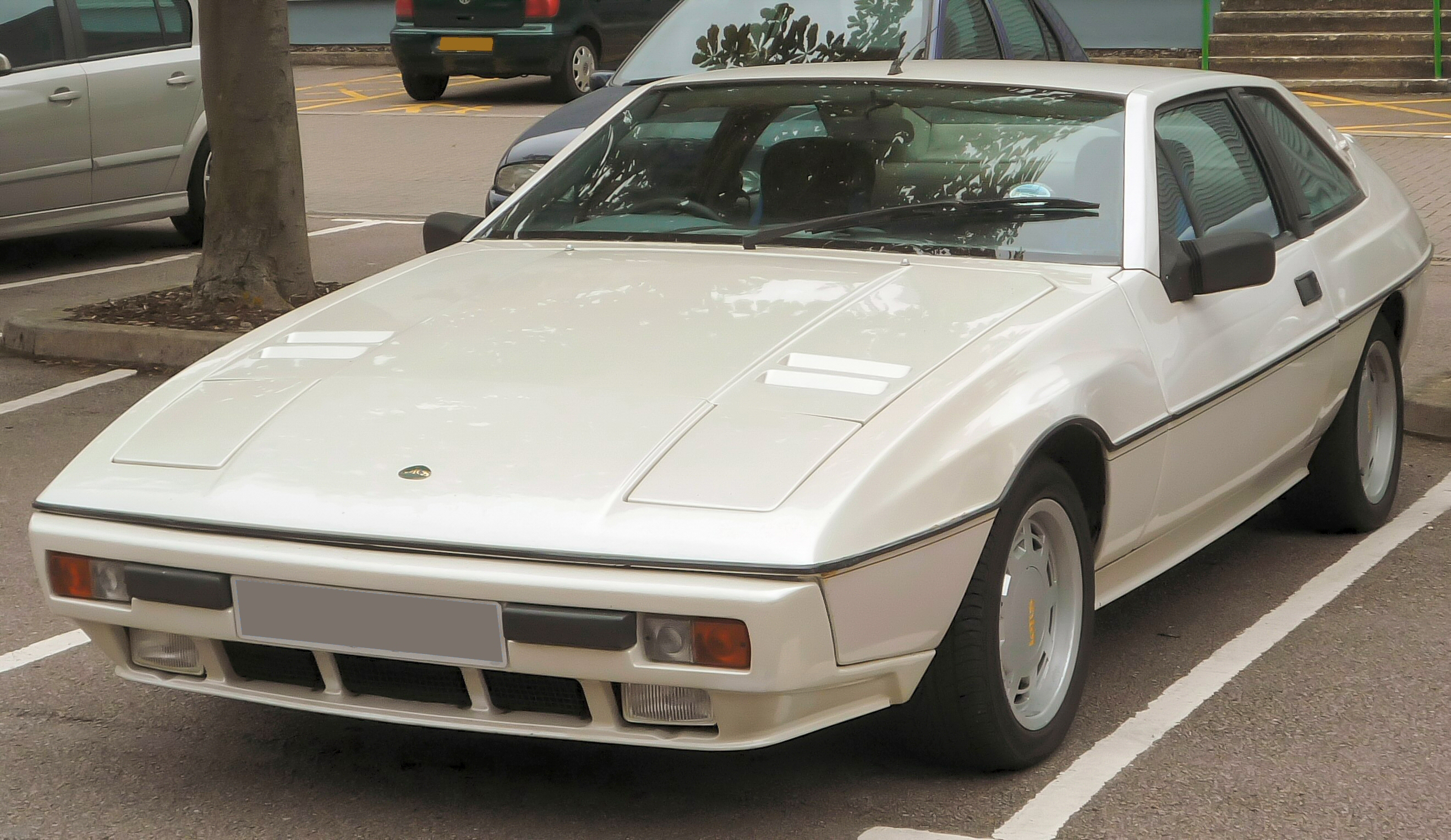 A 1985 Lotus Excel